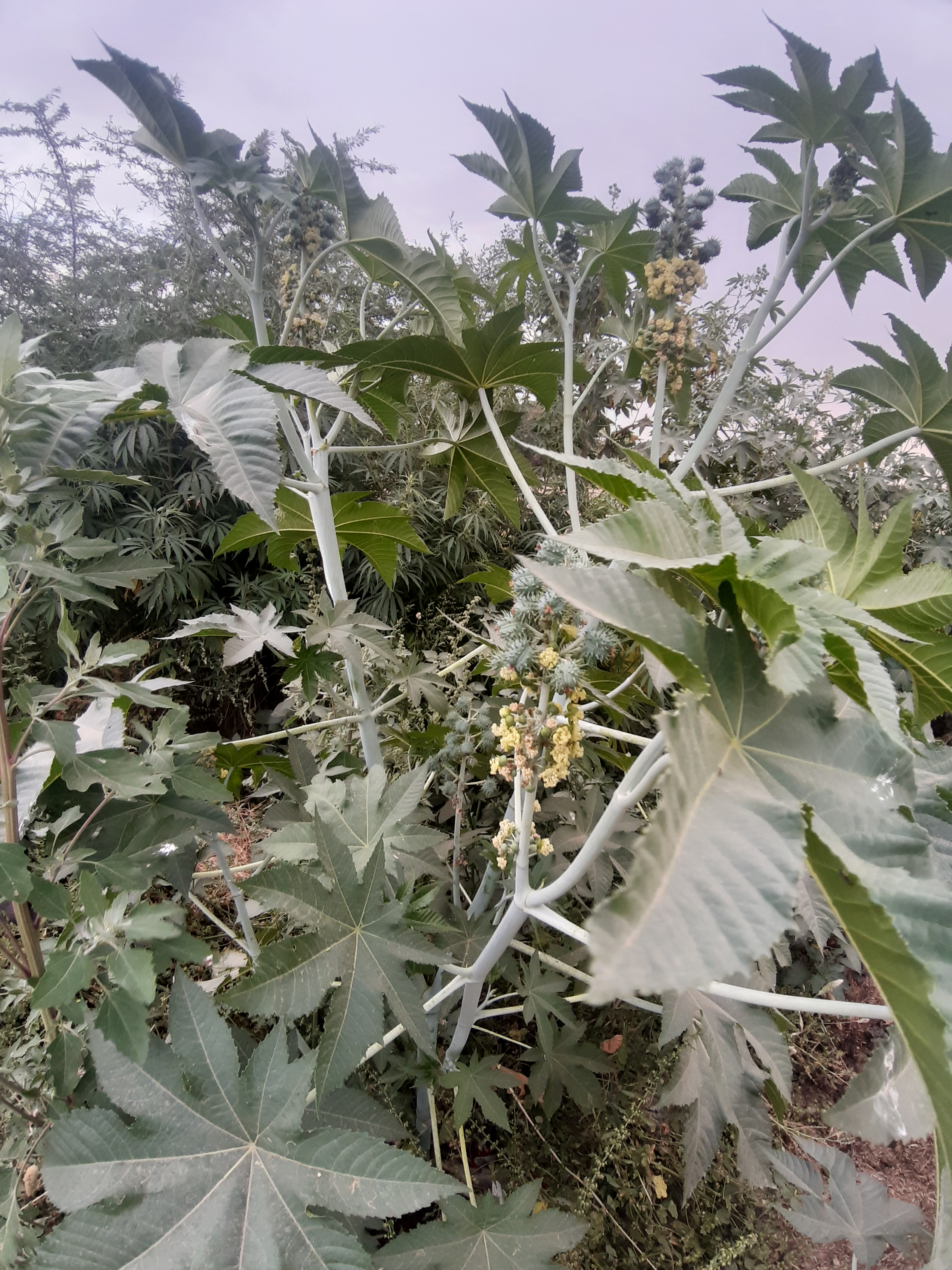 ਜਿੱਥੇ ਦਰੱਖ਼ਤ ਨਾ ਹੋਣ, ਉੱਥੇ ਅਰਿੰਡ ਪ੍ਰਧਾਨ (ਪੰਜਾਬੀ ਕਹਾਵਤ)